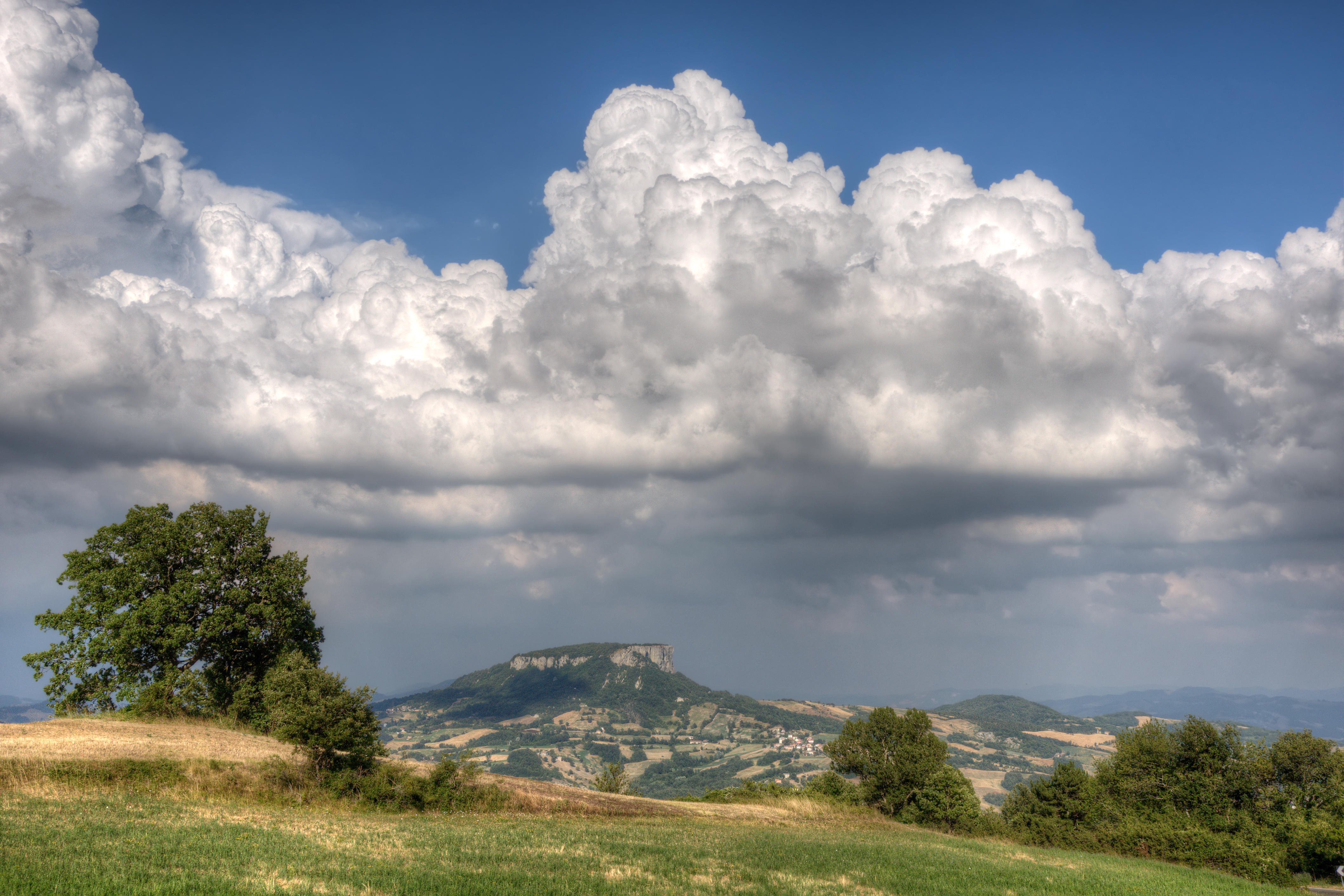 Pietra di Bismantova - Castelnovo Ne' Monti, Reggio Emilia, Italy